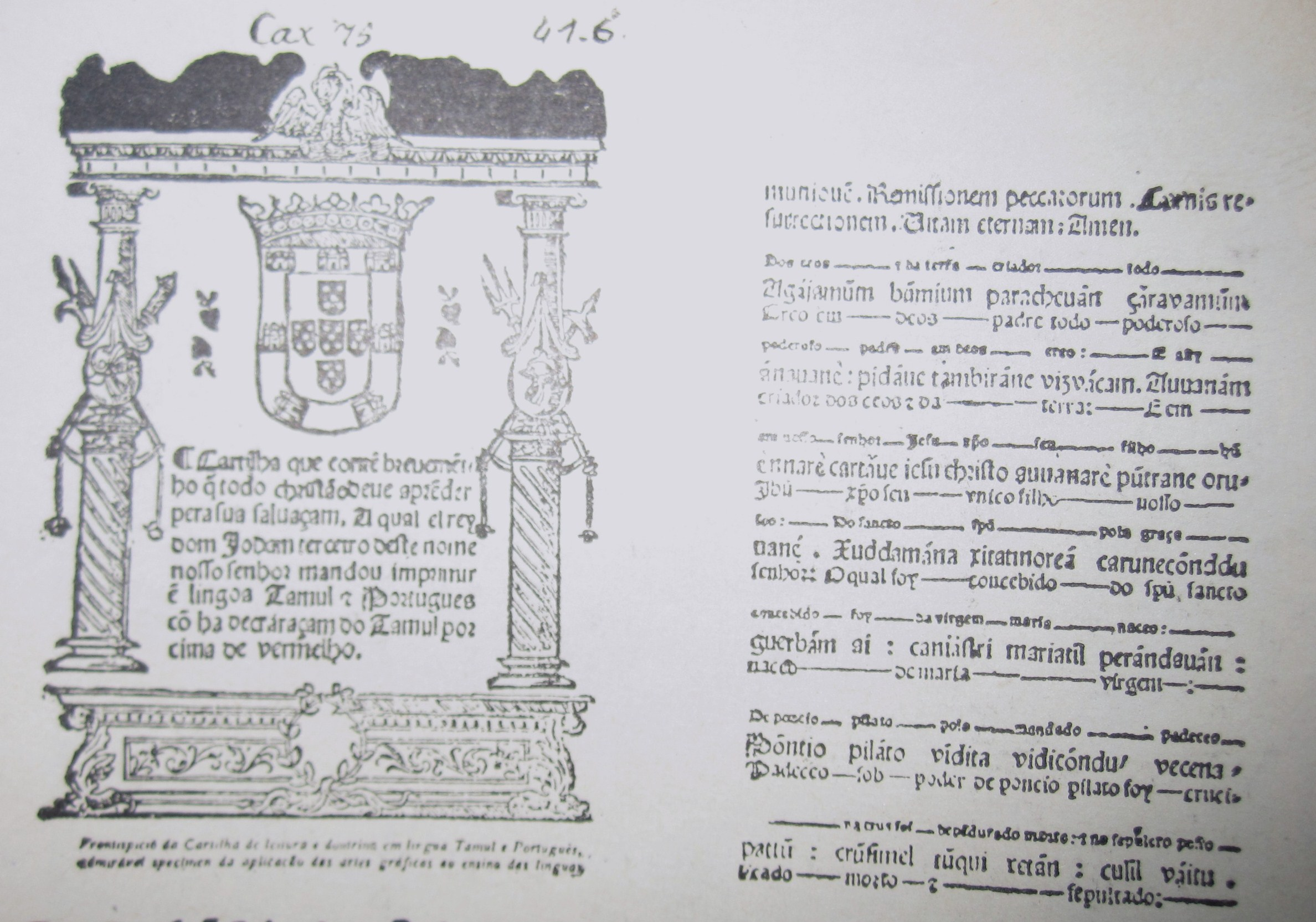 A page from Luso-Tamil Catechism (Cartilha or Primer) printed in Lisbon in 1554 CE. It is a bilingual work with Tamil and Portuguese phrases - both printed in Roman script. This is the earliest known printed work of Tamil (though in roman script). The books is 38 pages long with Tamil phrases in Red followed immediately by Portuguese translations printed in black (in smaller font). Authors of the book were Tamil Christians living in Lisbon - Vincente de Nazareth, Thome da Cruz and Jorge Carvalho(?). They were supervised by Father Joao Villa de Conde. The single surviving copy of the book is at the Ethnological Museum at Belem, The title of the book reads Cartilho che conte brevemente ho q todo christavo deve aprender pera sua saluacum, a qual el rey dom joham terceiro deste nome nosso senhor mandou imprimir e lingua Tamul e Portugues co ha declaracum do Tamul por Cima de vermelho (Primer which contains in brief all that a Christian should know for his salvation and for which our lord, the king Dom John III, had ordered to be printed in the Tamil language and in Portuguese with the Tamil meaning printed above in red.) This book was rediscovered by Fr. Xavier Thaninayagam in the 1950s.